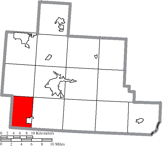 Map of the municipal and township boundaries of Athens County, Ohio, United States, as of the 2000 census, with the location of Lee Township highlighted. Township borders are shown only in unincorporated areas in order to differentiate incorporated and unincorporated areas more clearly.